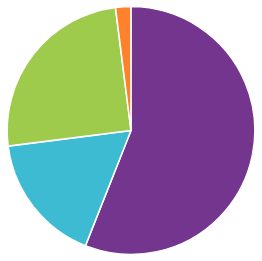 When Europeans go the cinema, what do they watch? (1996-2016, data from the European Audiovisual Observatory) US Films - 56% European films - 25% US/European co-productions - 17% Other films - 2%